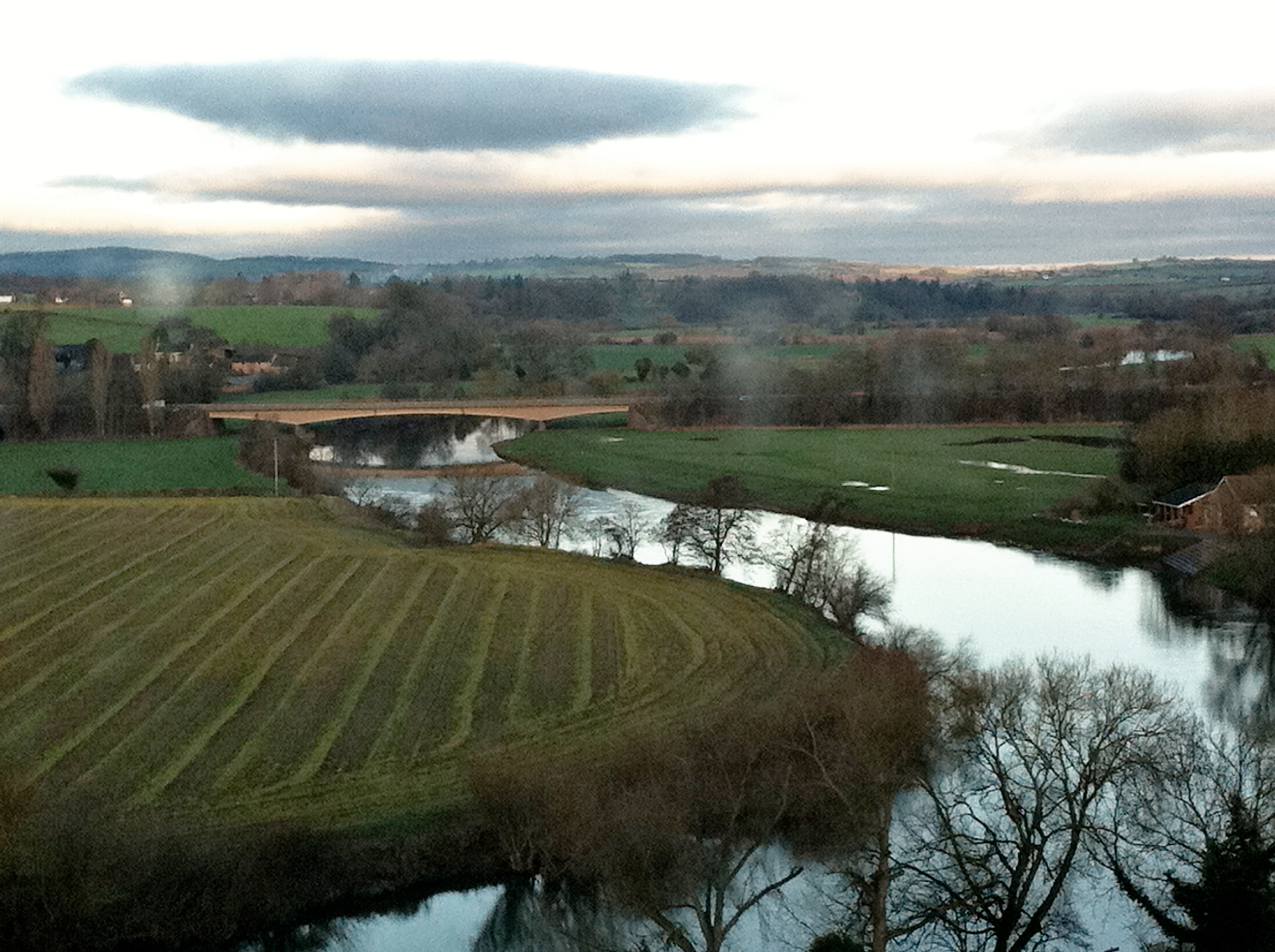 River Wye view from Royal Hotel, Ross-on-Wye, Herefordshire